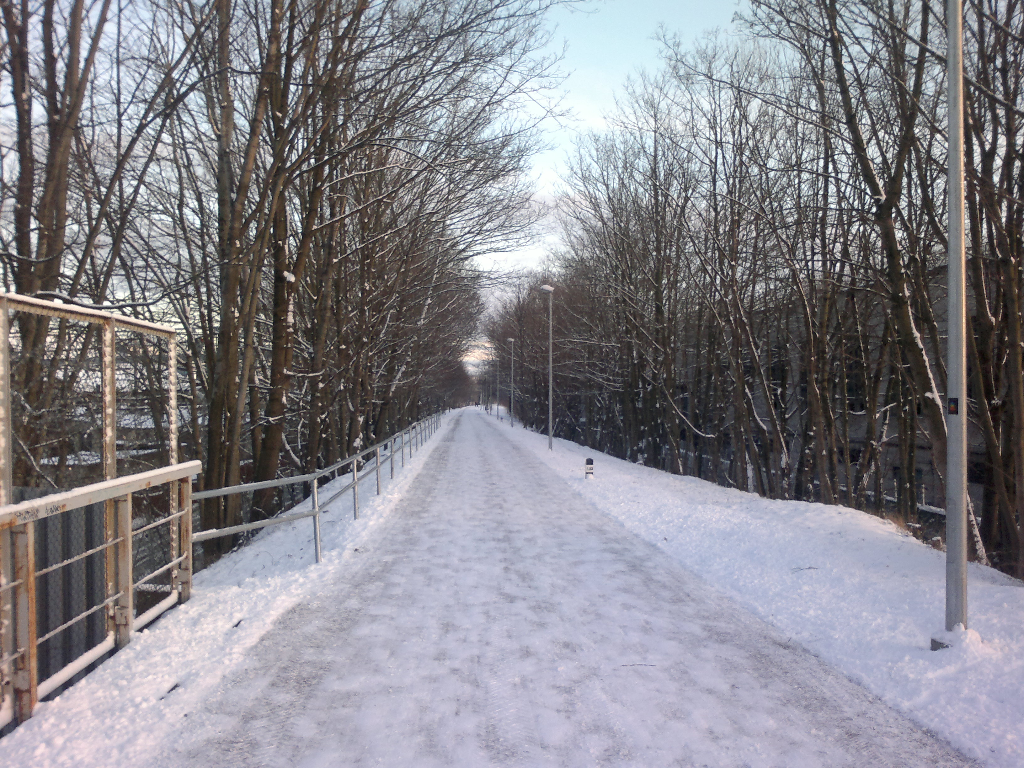 Kultuurikilomeeter